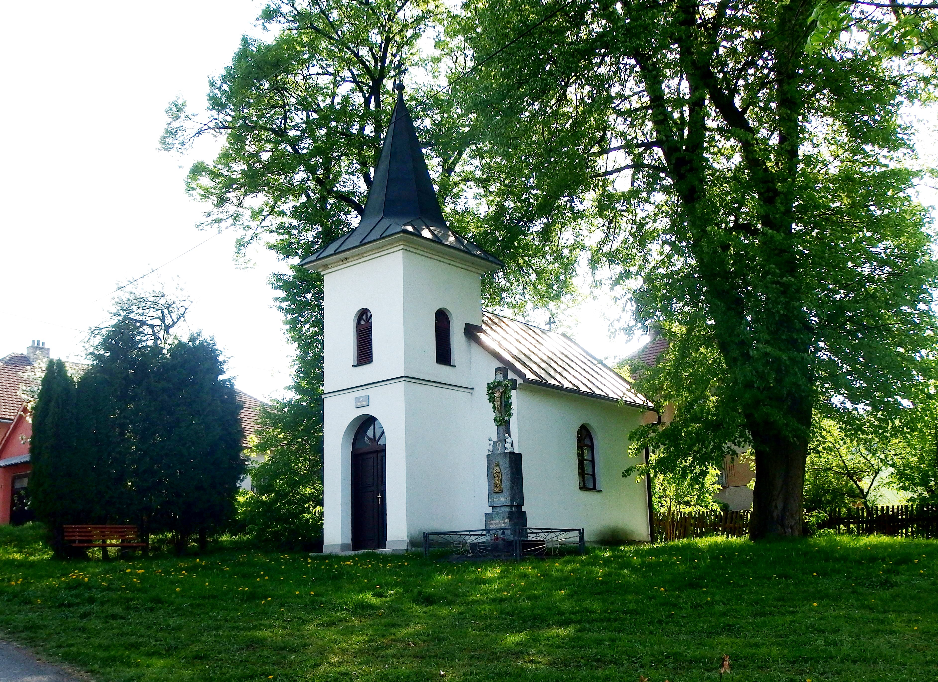 Rokytnice, Zlín District, Czech Republic, part Kochavec.